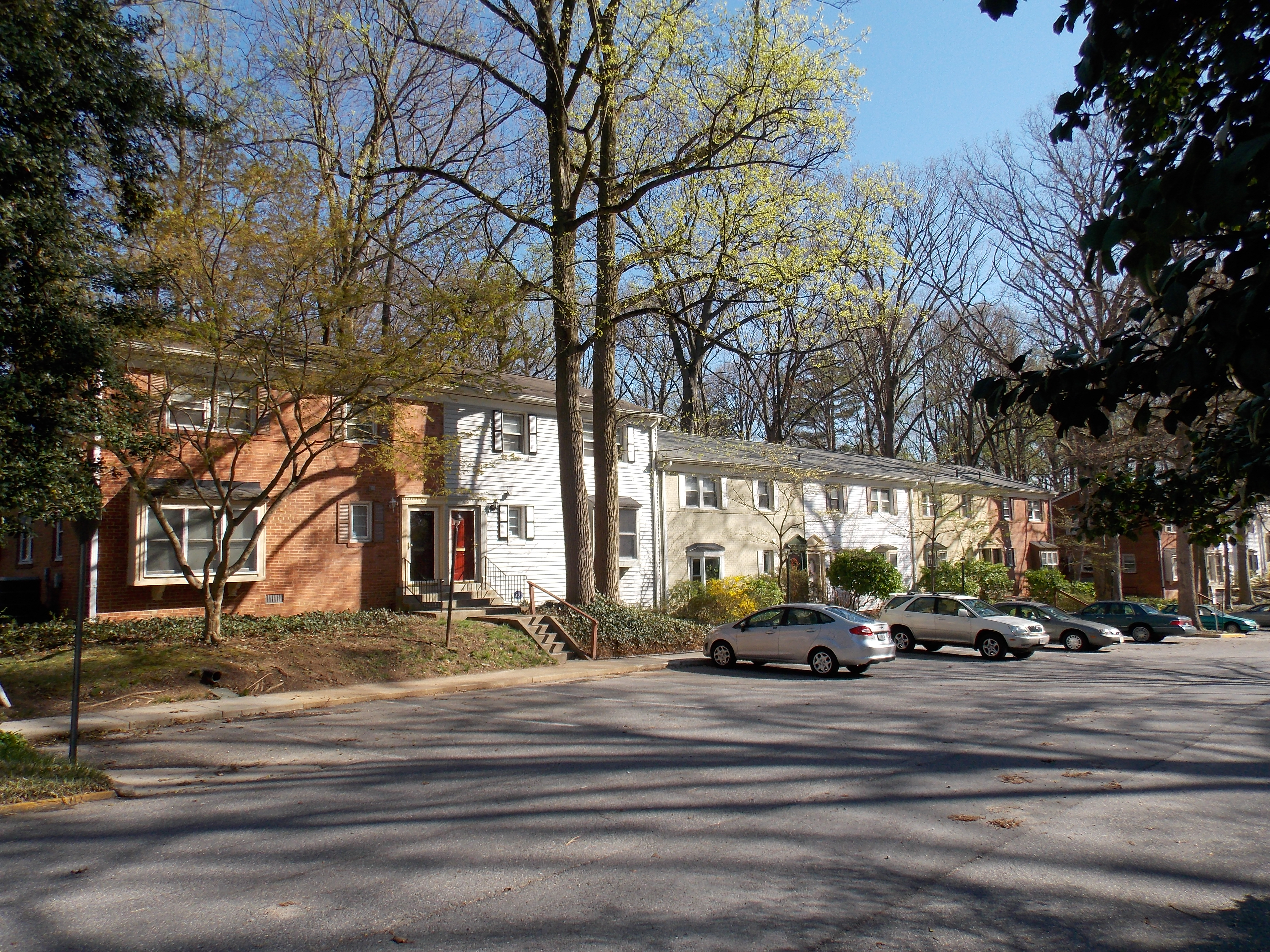 Top of the Park is a condominium complex along the Sligo Creek Parkway in Silver Spring, Maryland.